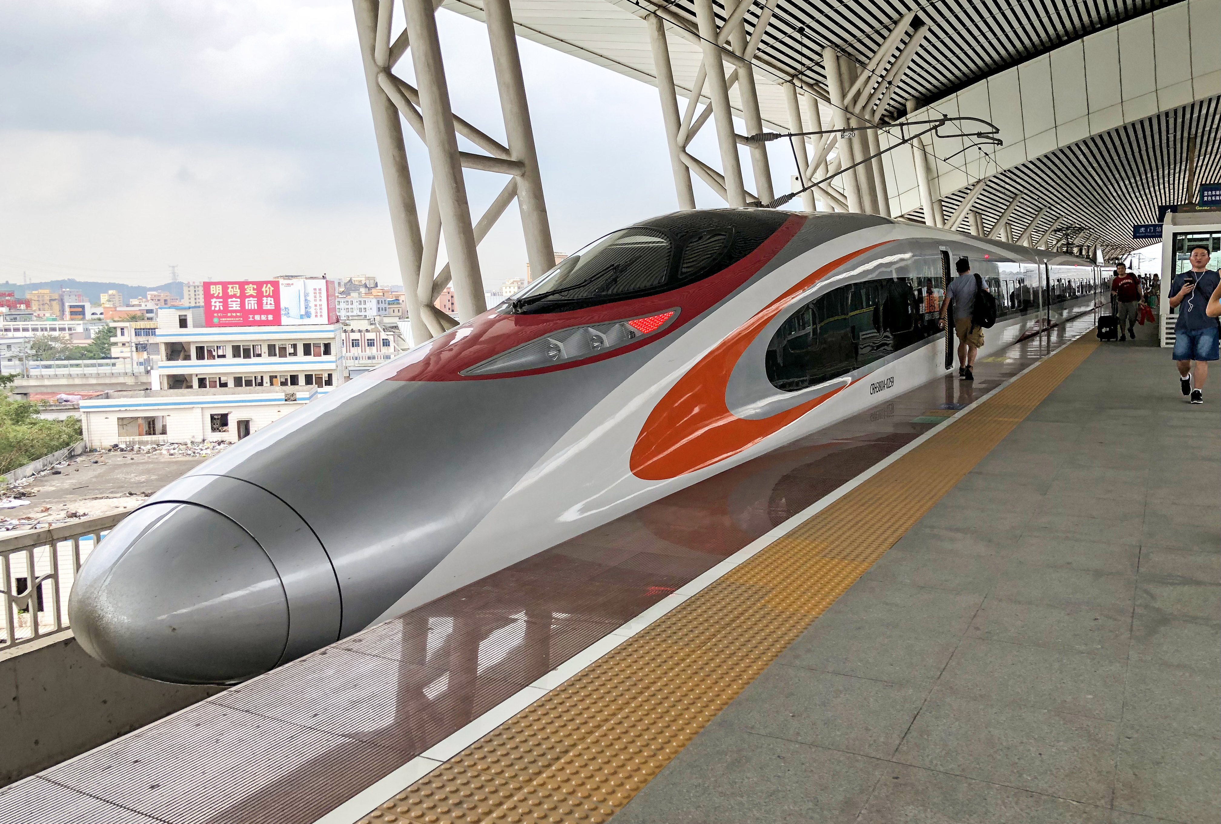 G6582 from Hong Kong West Kowloon to Guangzhou South. Unobstructed view is nearly impossible on the first day operation of Hong Kong section.